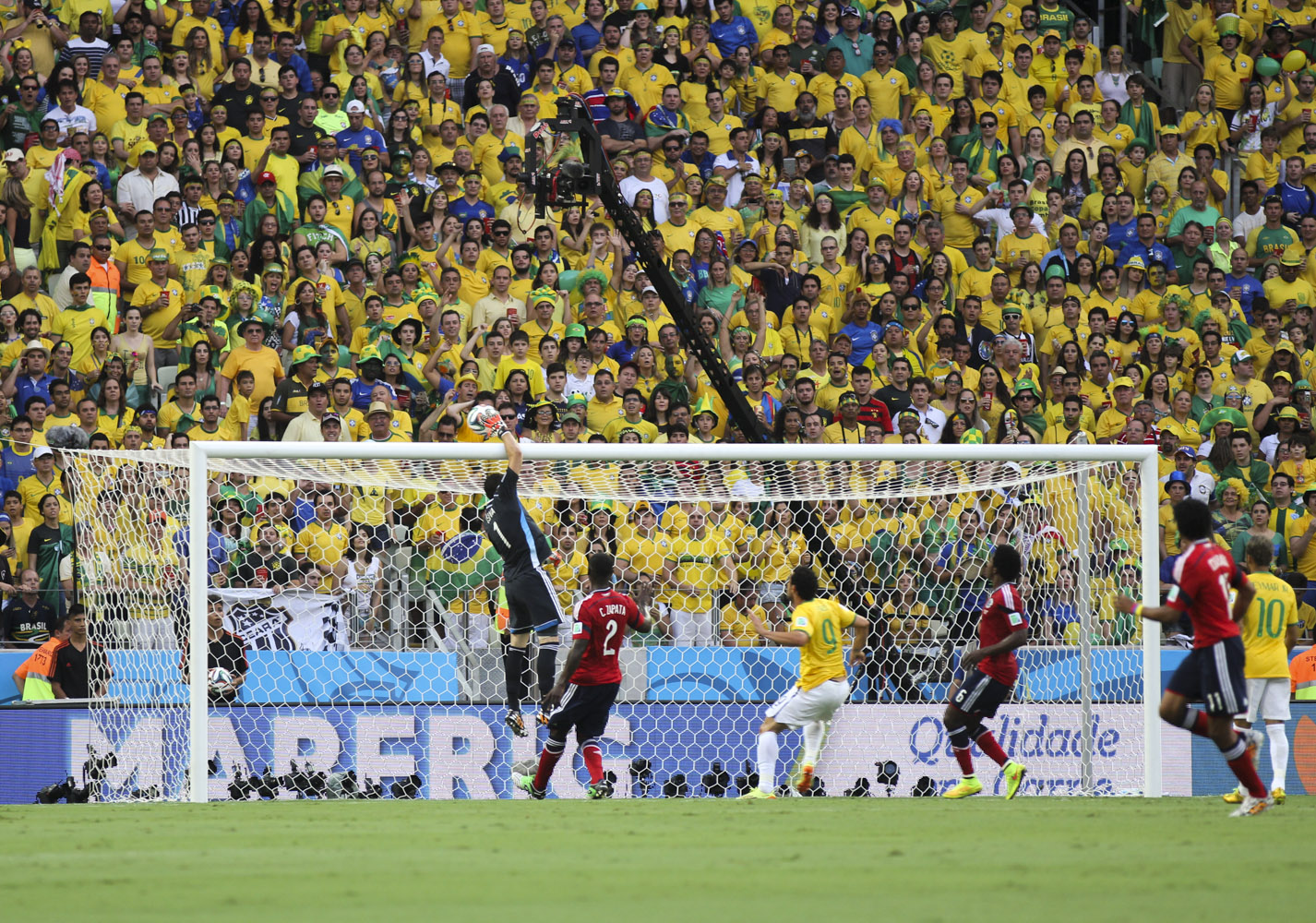 Brazil and Colombia match at the FIFA World Cup 2014-07-04